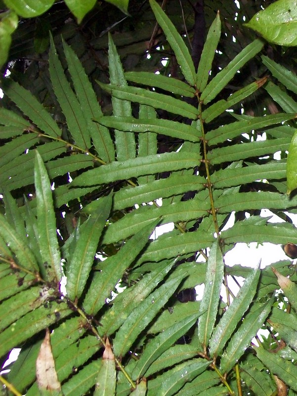 Akania leaves, Royal Botanic Gardens, Sydney